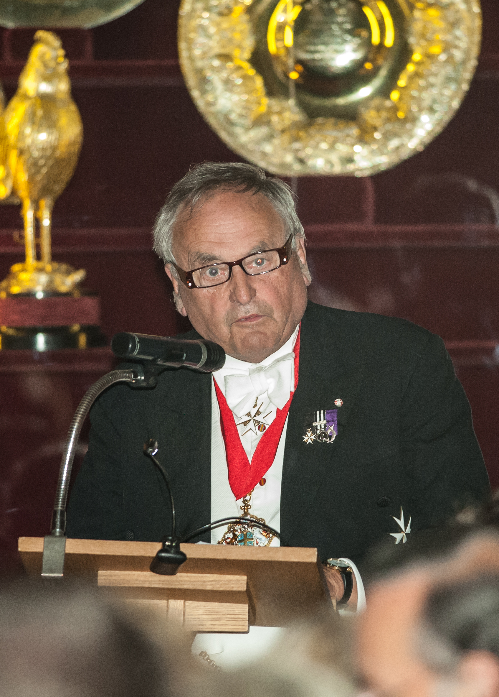 Donald Adamson as Master of the Worshipful Company of Curriers in full flow at some dinner in Curriers' Hall. He particularly points out the cross of the Venerable Order of Saint John upon his left breast.